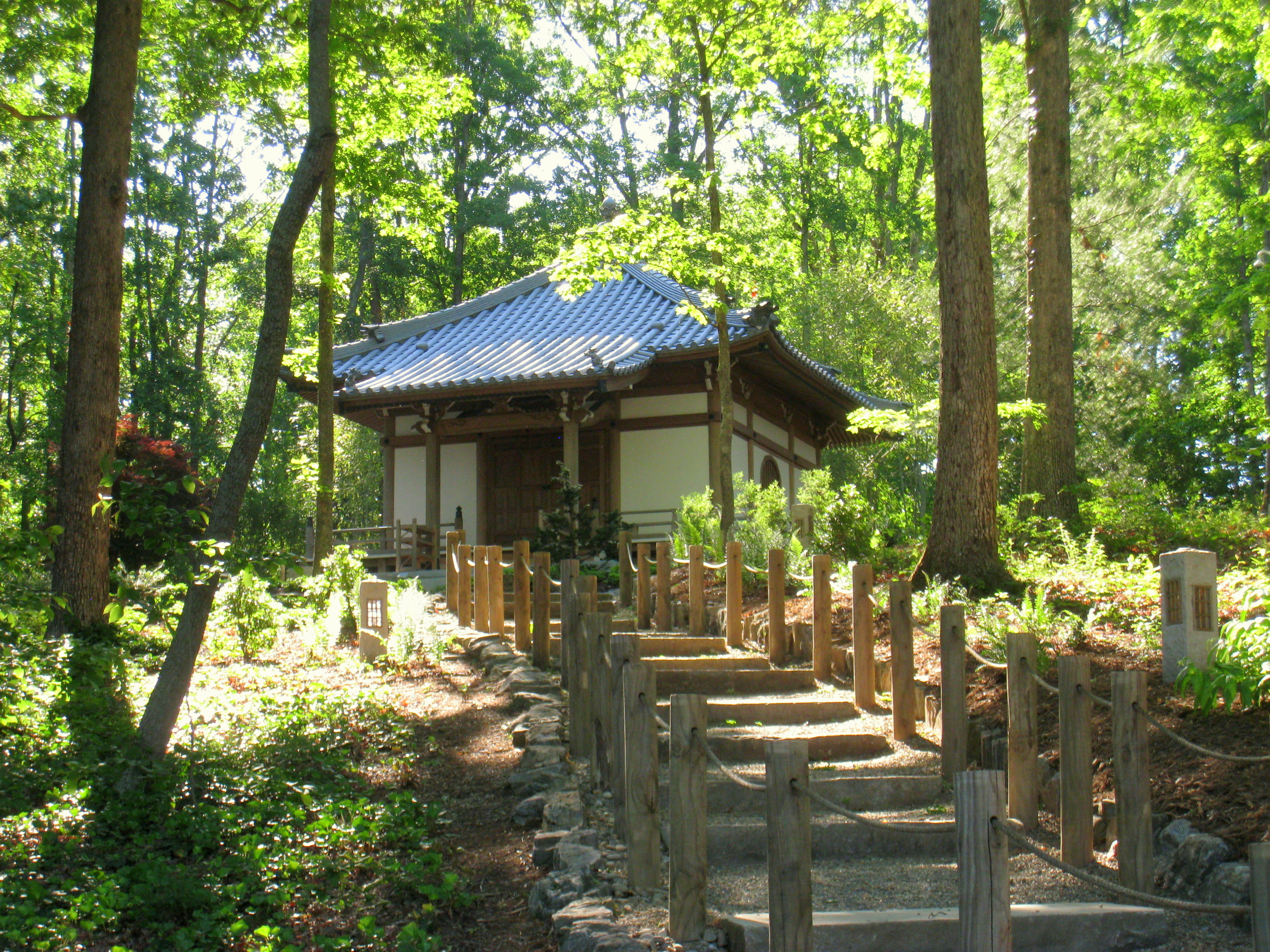 Place of Peace, Furman University, Greenville, South Carolina, USA. According to a plaque on the site, this temple is called Hei-Sei-Ji, and was transported from Nagoya to Furman University in 2004.